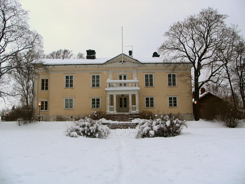 Herttoniemi Manor in winter in Helsinki, Finland.